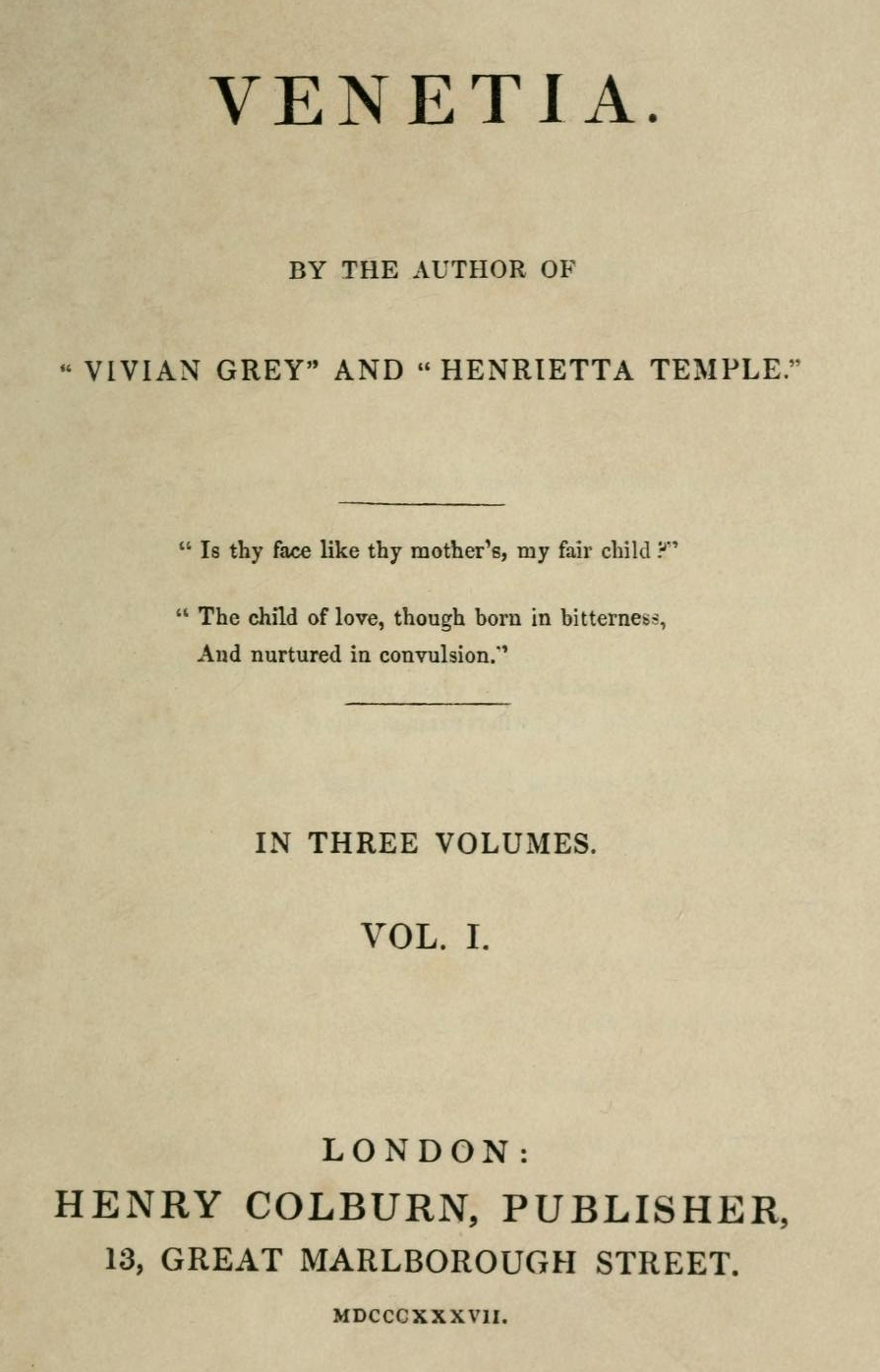 First ed title page (re-upload because there's a file on Wikipedia with the name Venetia.jpg)